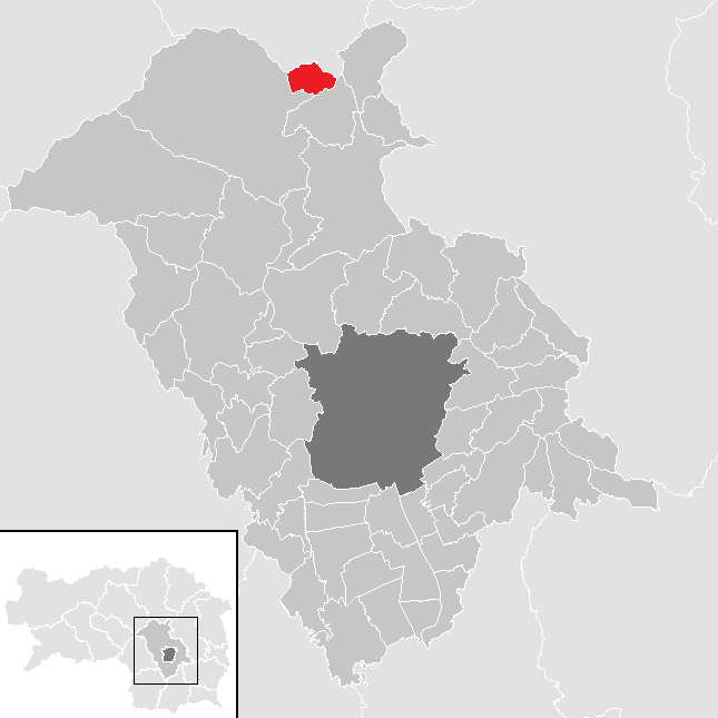 District Graz-Umgebung, Styria